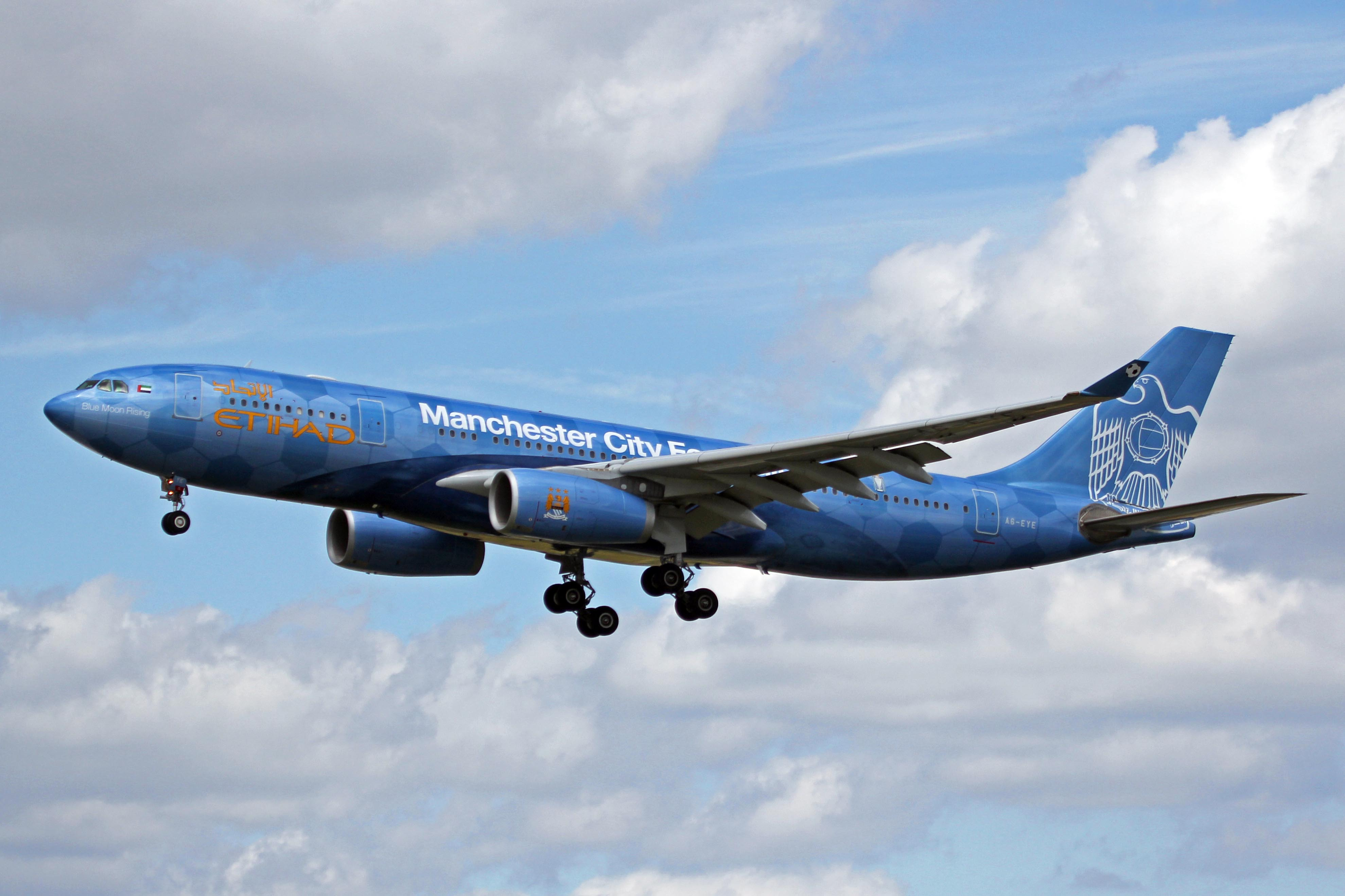 'Blue Moon Rising', Manchester City Soccer Team logojet.